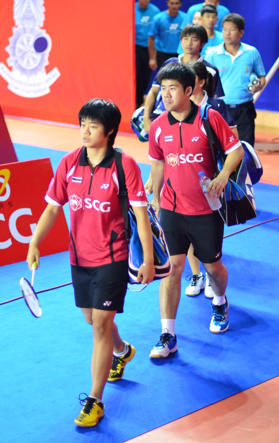 Sapsiree & Nipitphon